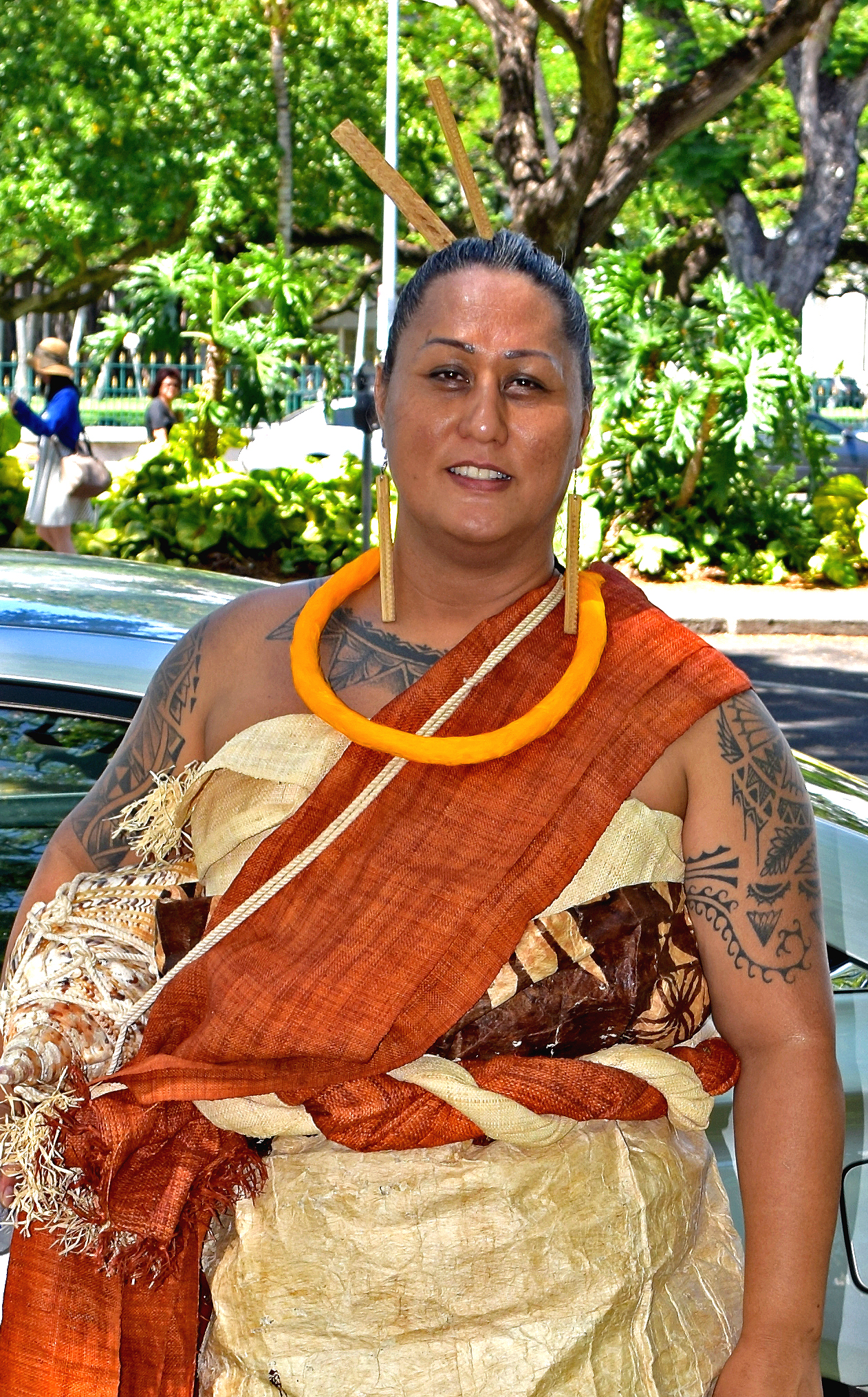 Hinaleimoana Wong-Kalu at the Kamehameha Day Lei Draping on June 10, 2016